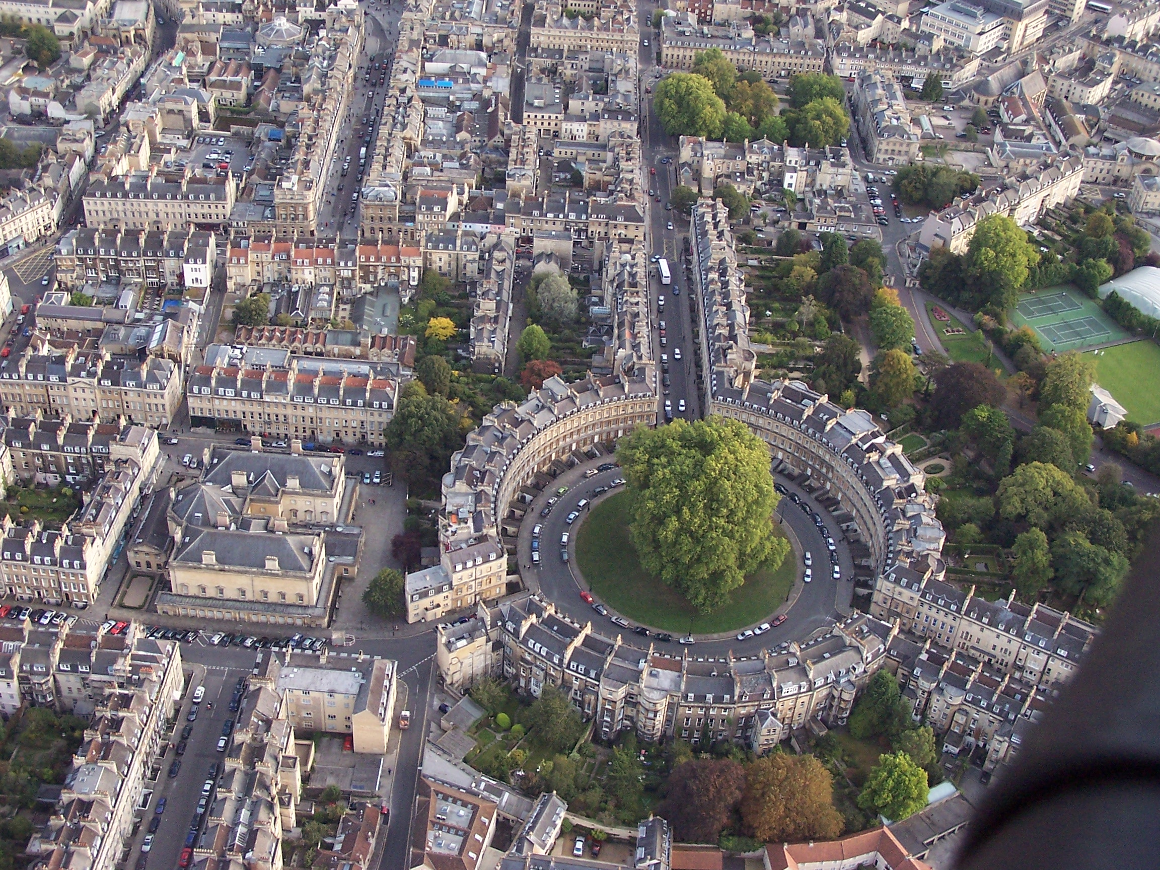 Assembly Rooms and The Circus from a balloon